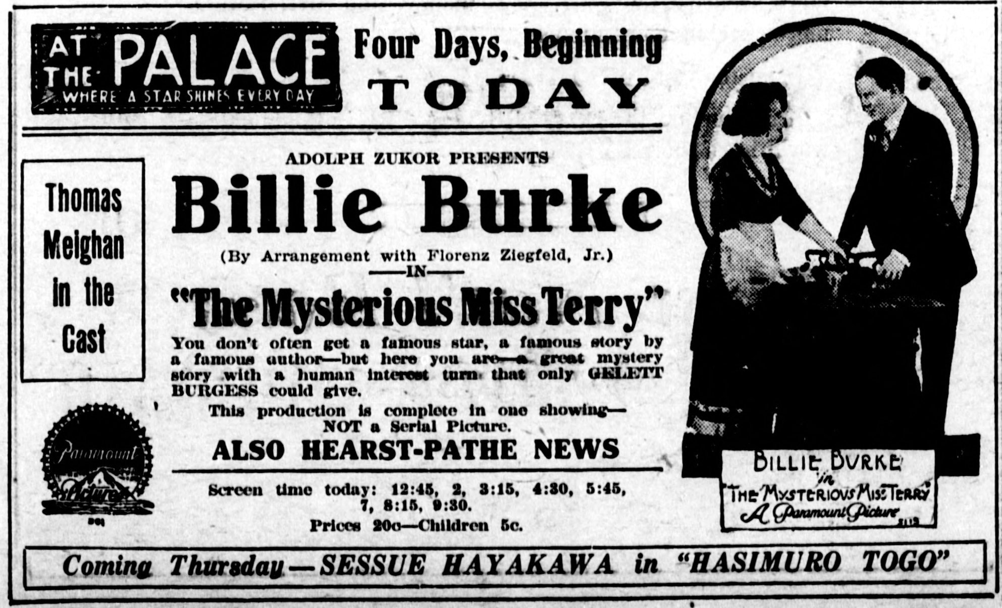 The Mysterious Miss Terry is a 1917 silent film mystery drama produced by Famous Players-Lasky and distributed through Paramount Pictures. This is a newspaper advertisement.